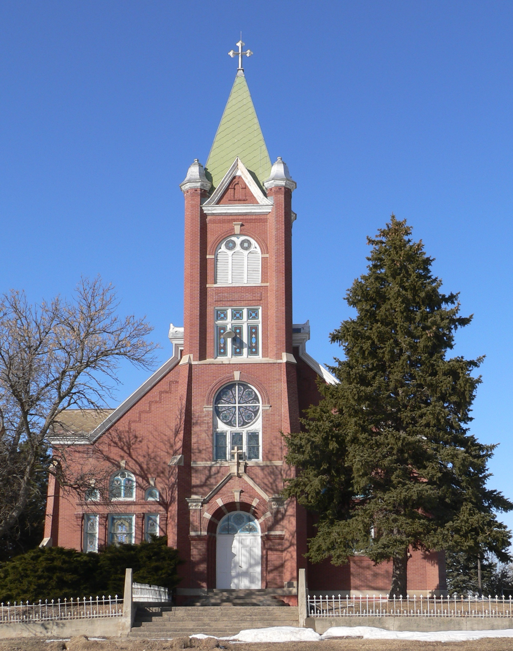 Visitation Church in O'Connor, Nebraska; seen from the south. O'Connor is an unincorporated settlement in Greeley County southeast of the village of Greeley. The church, rectory, and parish hall make up the Visitation Church complex, which is listed in the National Register of Historic Places. The church was designed in Romanesque Revival style by architect James H. Craddock, and was built in 1904.